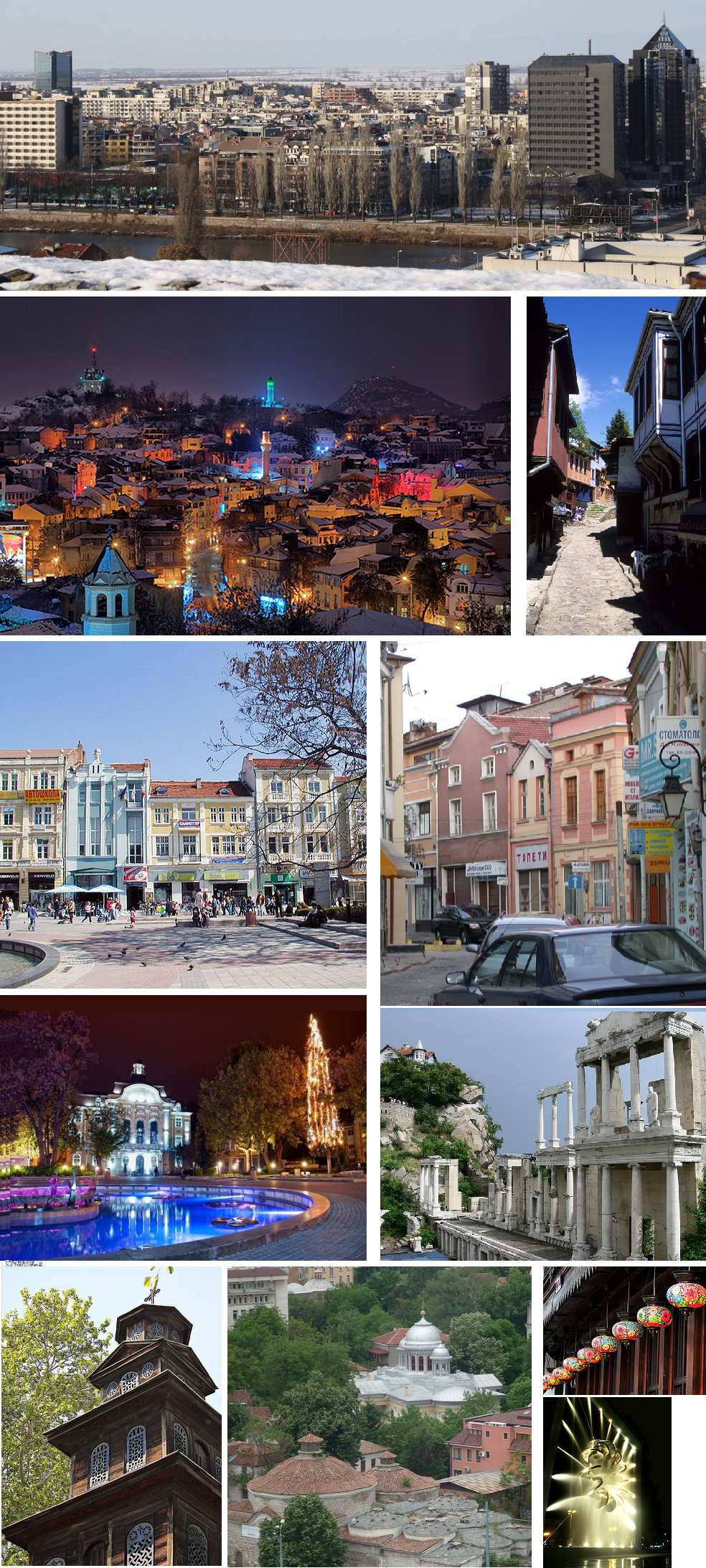 Plovdiv, Bulgaria